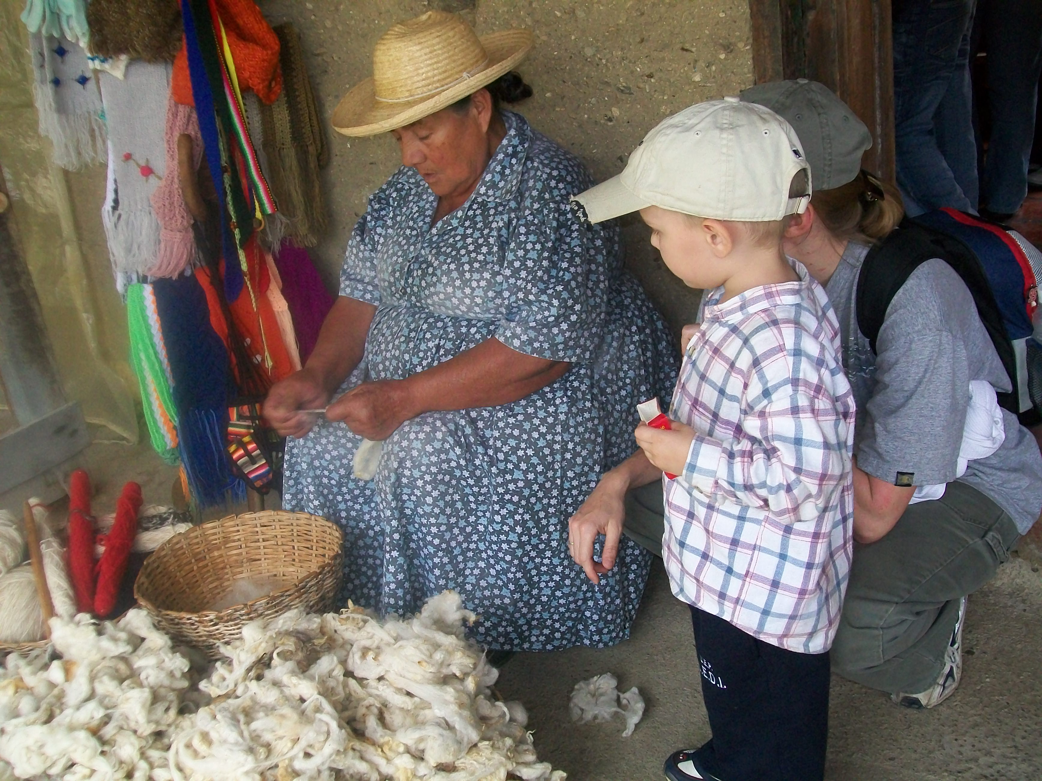 Lady weaving wool at the venezuelan theme park Los Aleros.